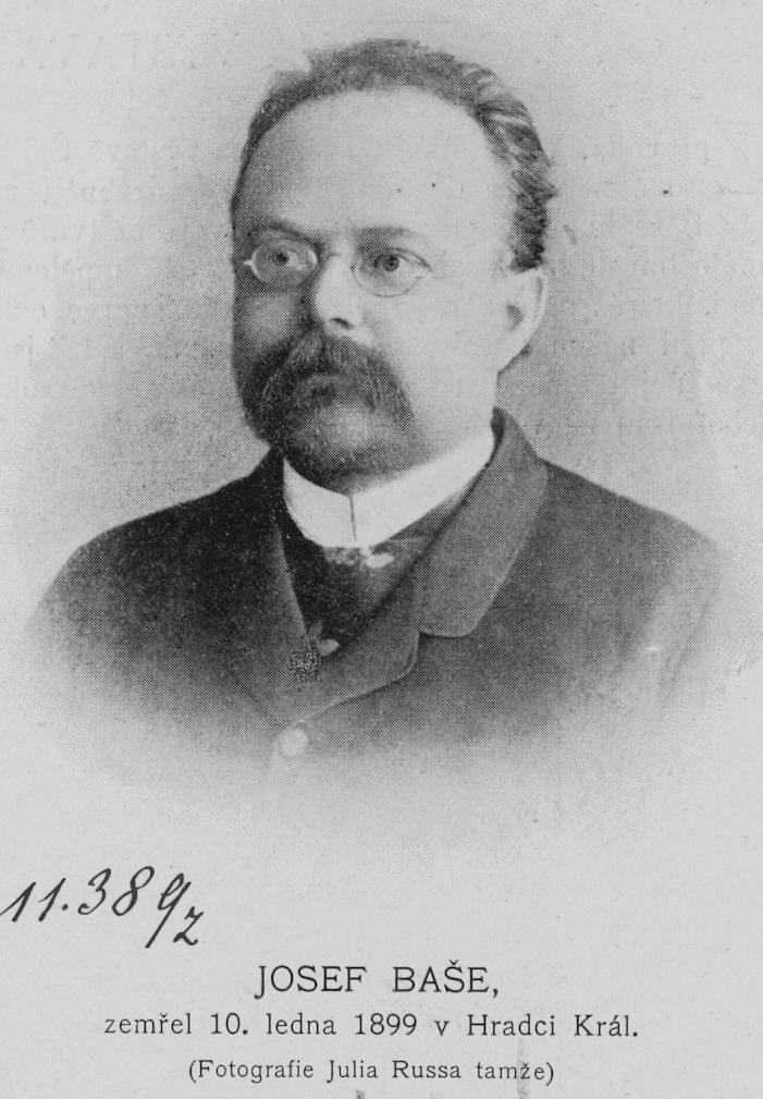 Portrait of Josef Baše (1850 - 1899), Czech Protestant poet.